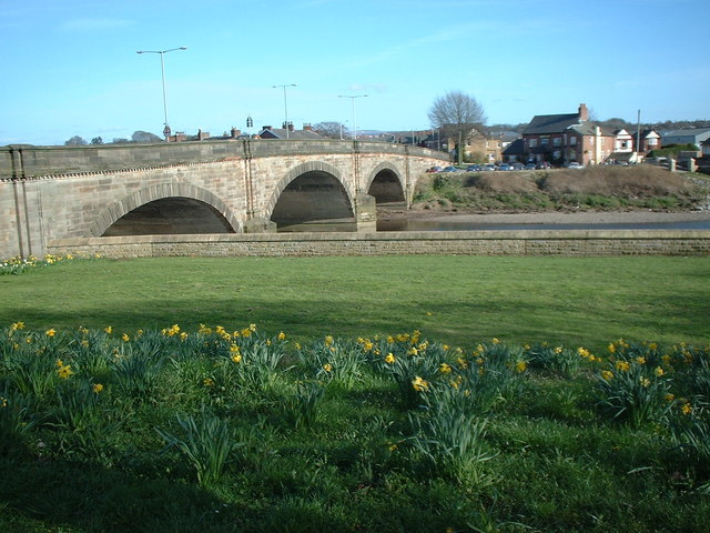 London Road Bridge over the River Ribble This bridge carries the A6 London Road over the River Ribble at Walton-le-Dale. As the name of the road suggests, it was once the main road to London from Preston. It is close to the place at which the Battle of Preston was fought in the English Civil War of August 1648: Oliver Cromwell's army won an important victory over the Royalists. The building to the right of the bridge is the Bridge Inn.